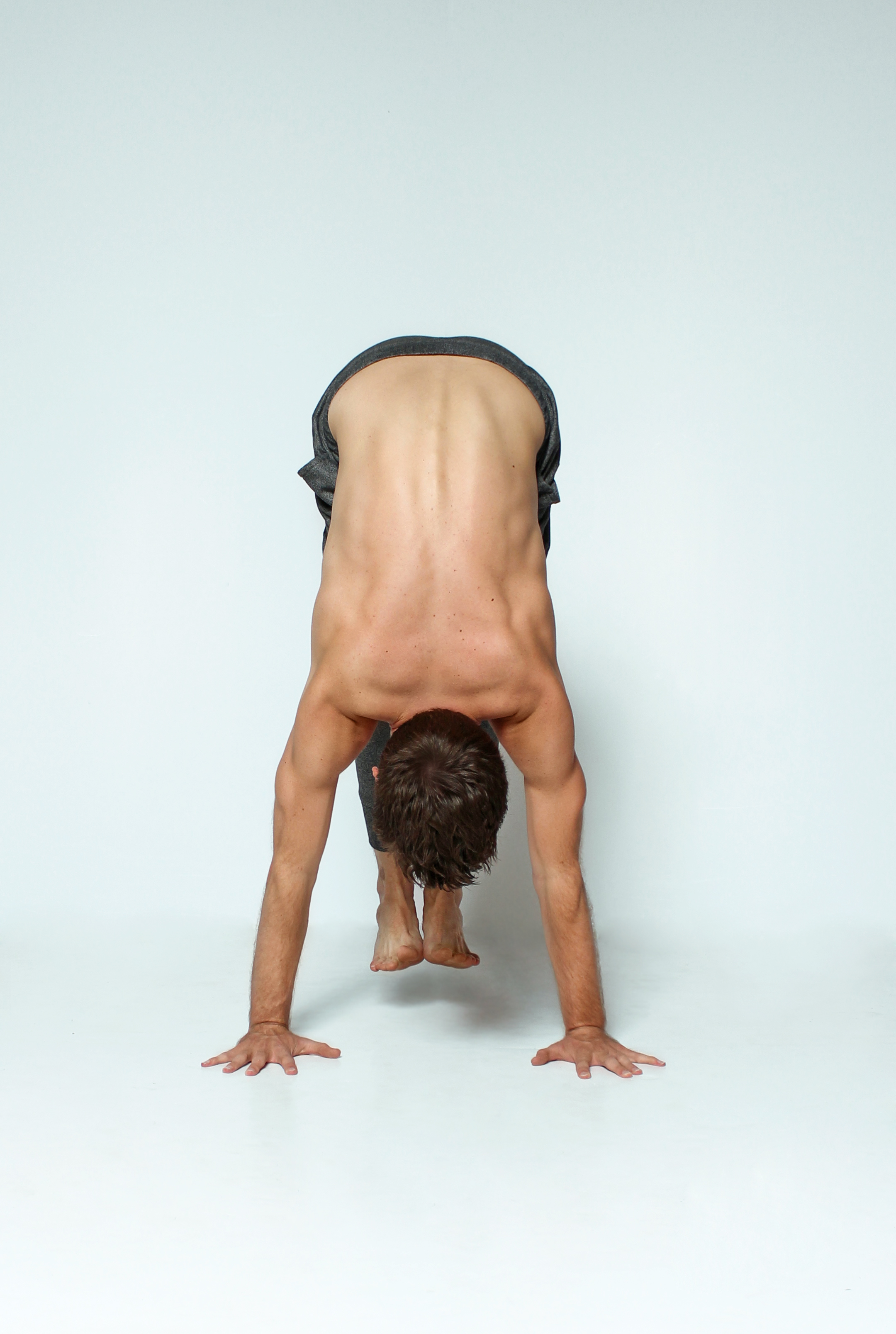 Drew Osborne Yoga